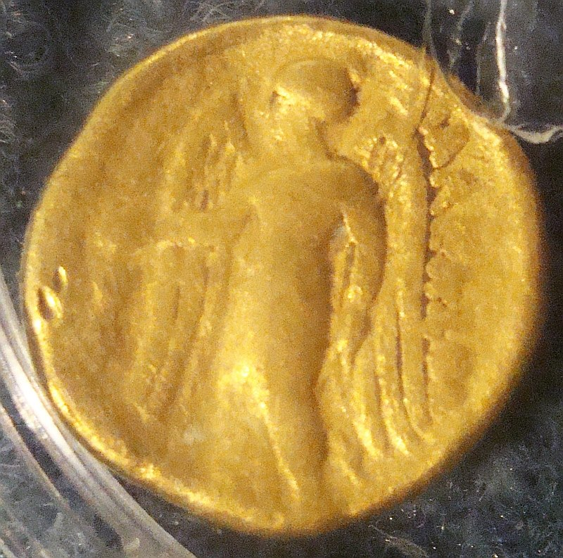 Stater: Nike (reverse), 336-323 BC Greece, Macedonia, reign of Alexander the Great (336-323 BC)